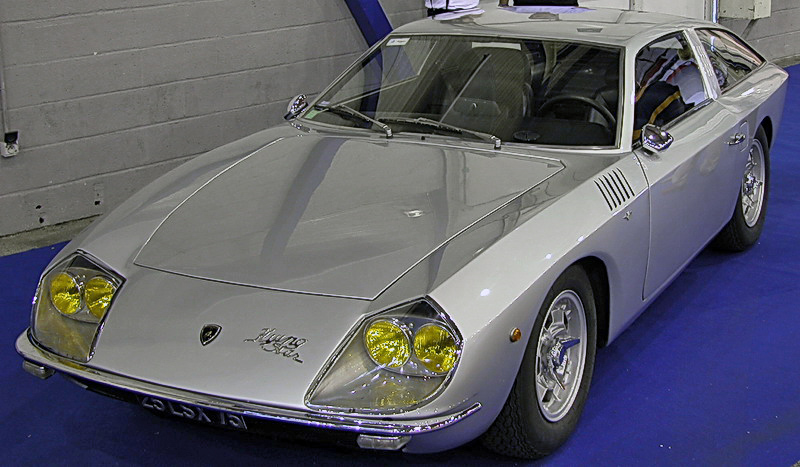 1966 Lamborghini Flying Star Frontansicht